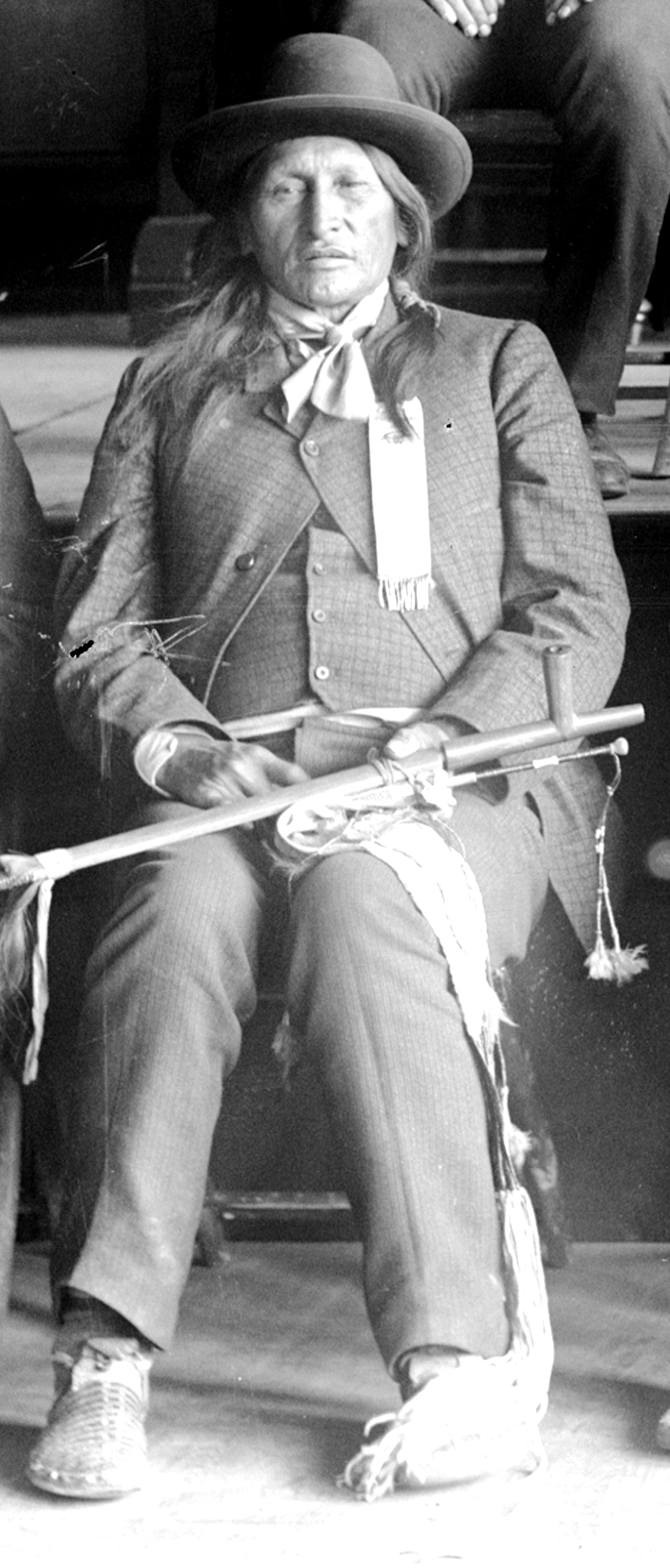 Spotted Elk, a.k.a. Big Foot, headman of the Miniconjou Lakota, taken in 1888